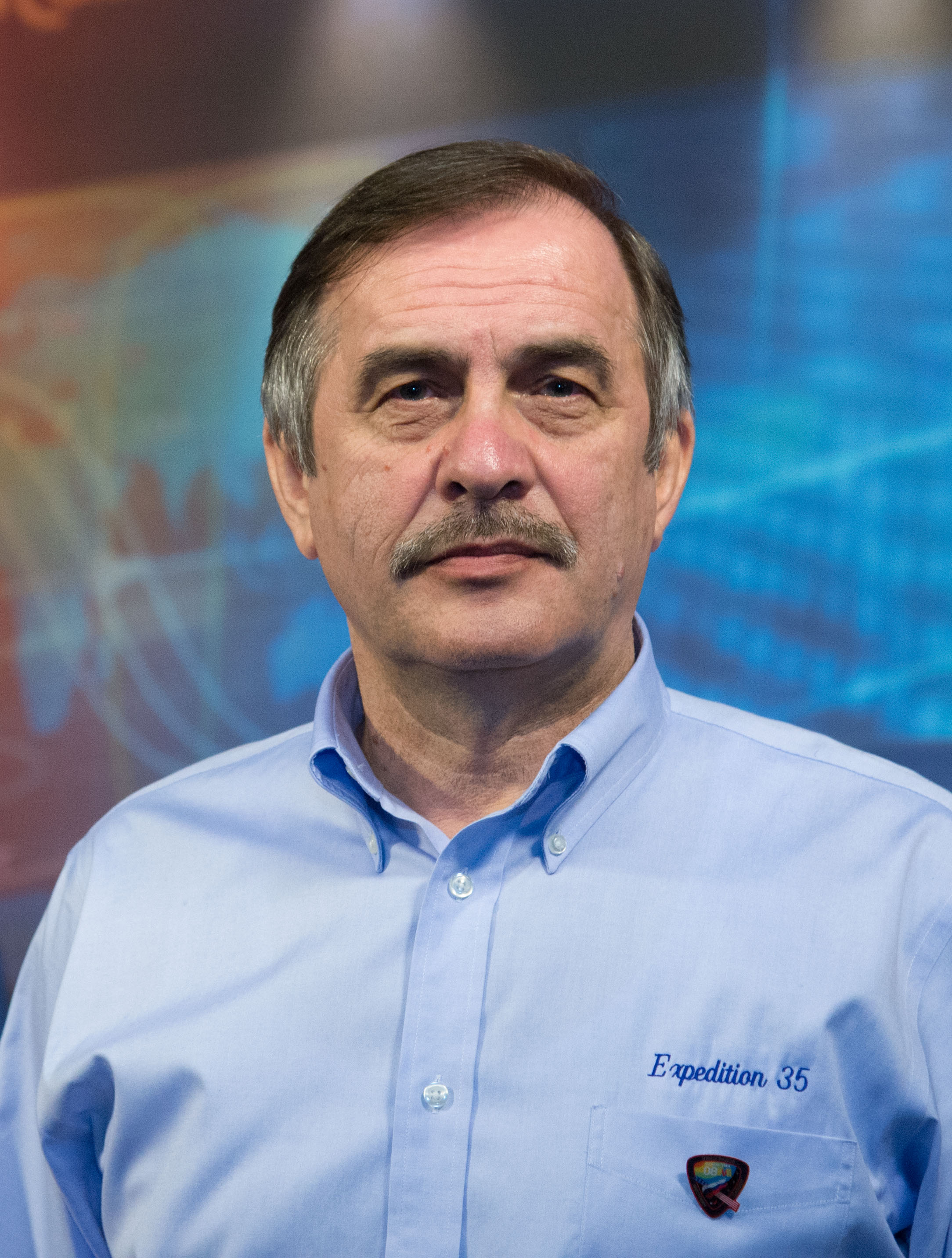 Russian cosmonaut Pavel Vinogradov, Expedition 35 flight engineer and Expedition 36 commander, poses for a portrait following an Expedition 35/36 preflight press conference at NASA's Johnson Space Center.